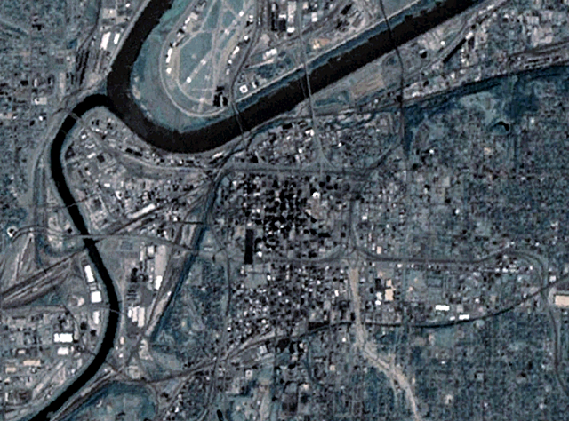 This LandSat7 NASA satellite image shows Kansas City Missouri downtown area